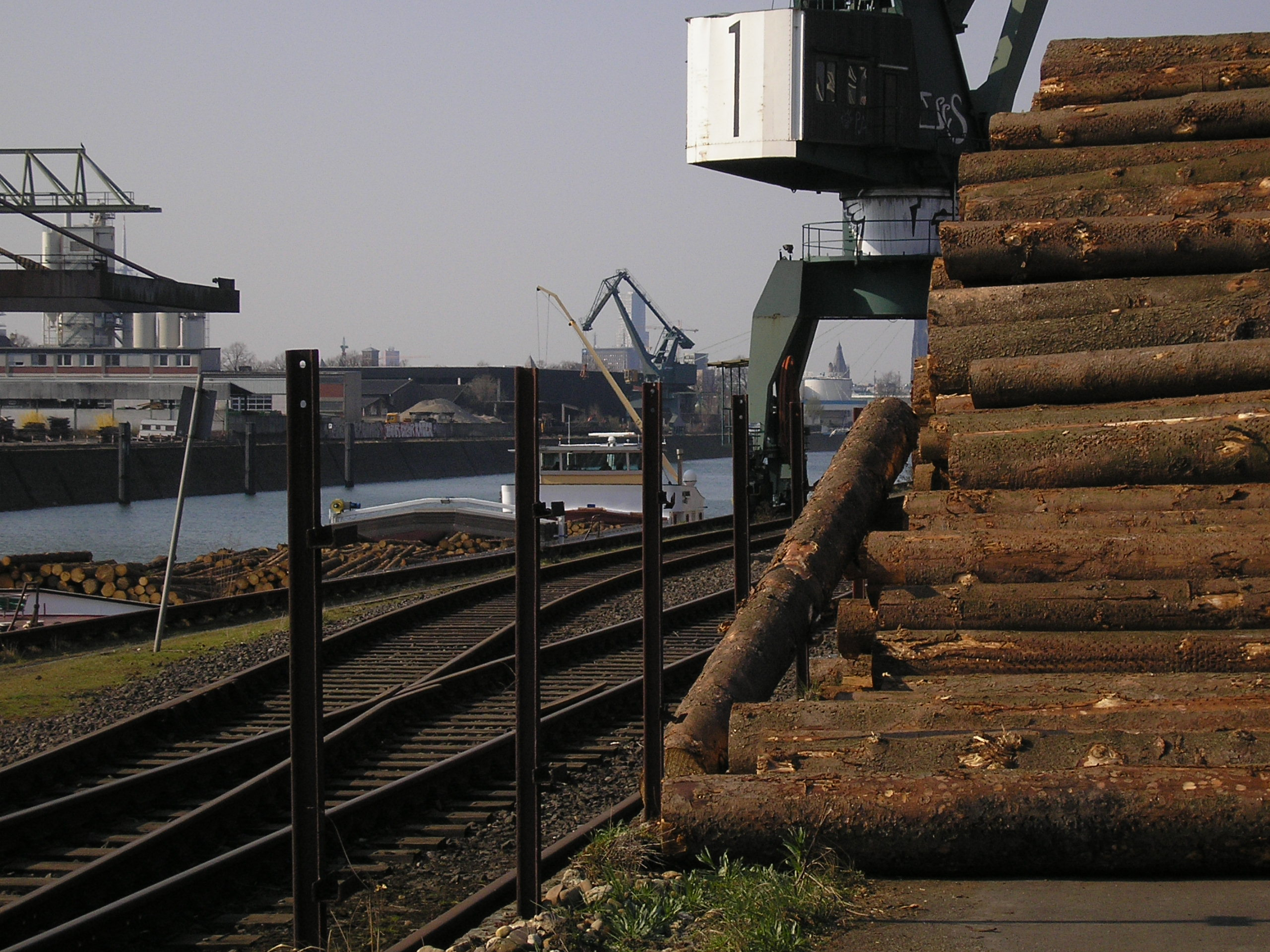 Cologne, Germany, Rhineport Deutz